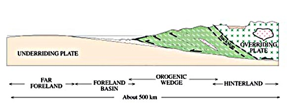 An illustration of the collision between two tectonic plates. One plate goes under the other, and the result is the buildup of a critical wedge of material. This orogenic wedge, or mountain-building wedge, maintains its slope by a stress balance between failures along the décollment, or main basal fault, and the faults inside the wedge.